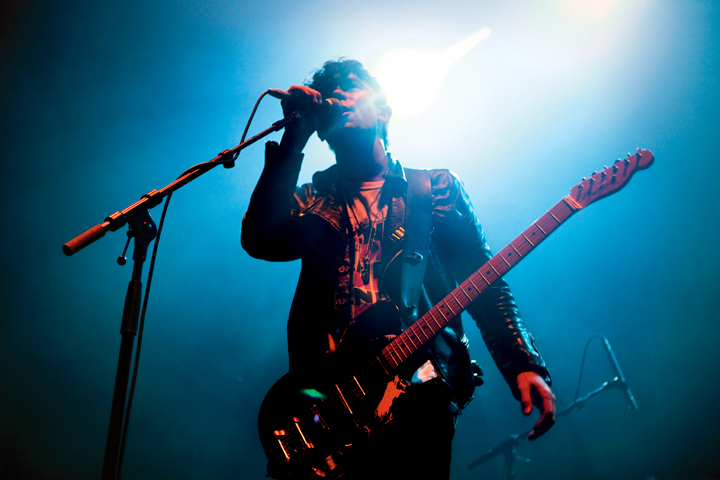 The Big Pink support the Pixies at Brixton Academy in London